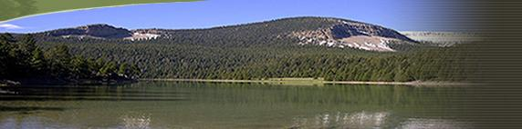 Lewis and Clark National Forest, Montana, U.S.